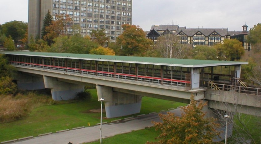 Elevated section of Old Mill subway station in Toronto